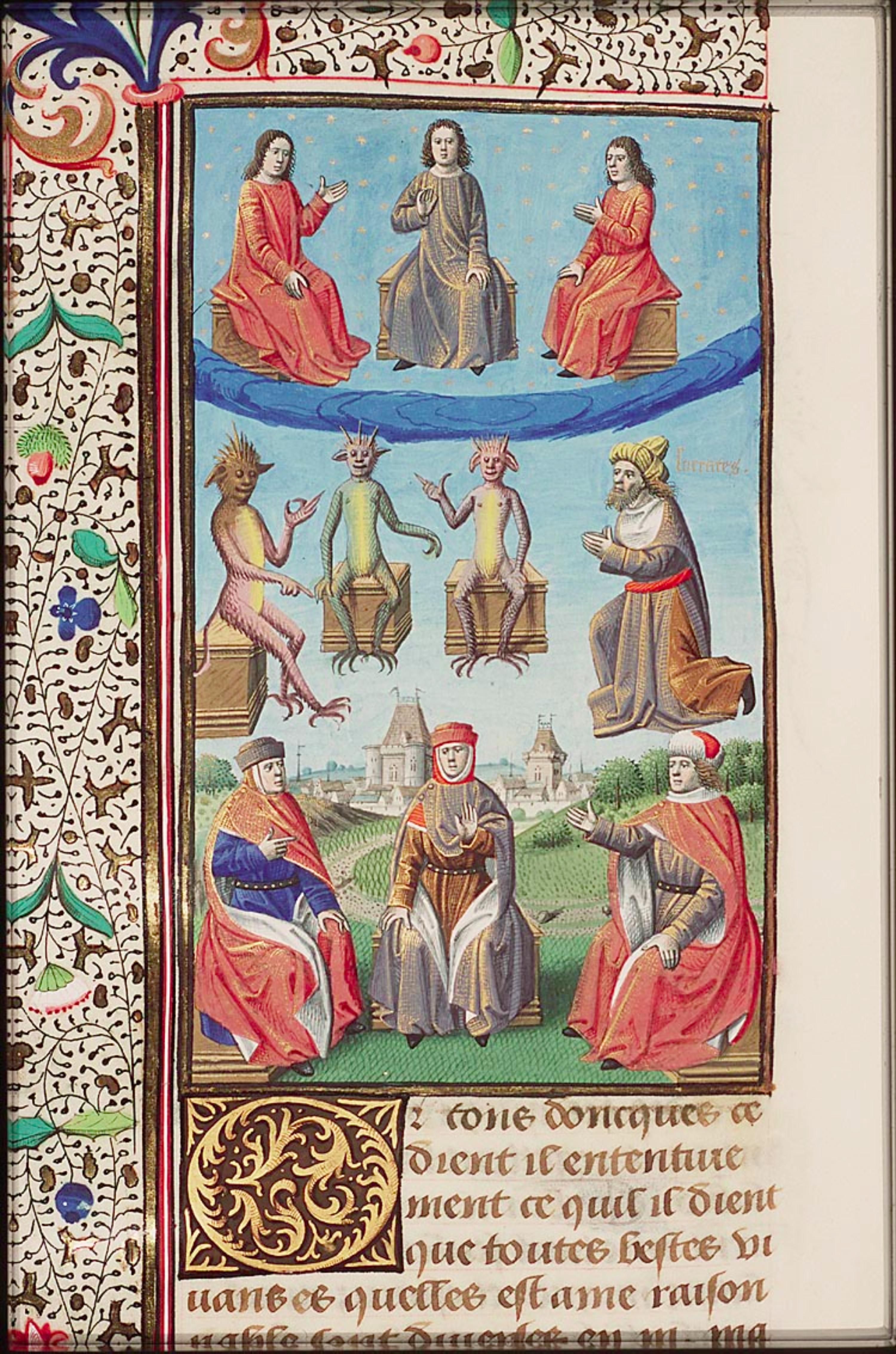 An illuminated page of the book The City of God, French translation by Raoul de Presles (1371-1375). The picture shows Socrates with demons. Manuscript The Hague, Museum Meermanno, 10 A 11, fol. 380v.